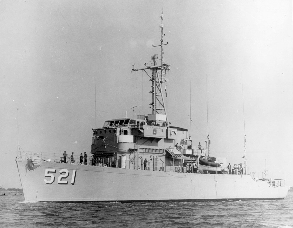 The U.S. Navy sonar research ship USS Assurance (AG-521) underway.